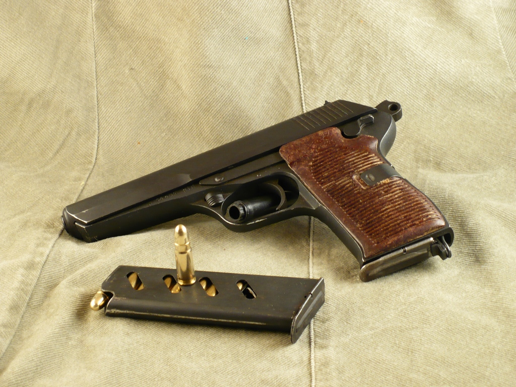 CZ52 7.62x25 TOK CZECH